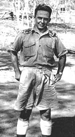 S. Warren Carey in New Guinea, 1942